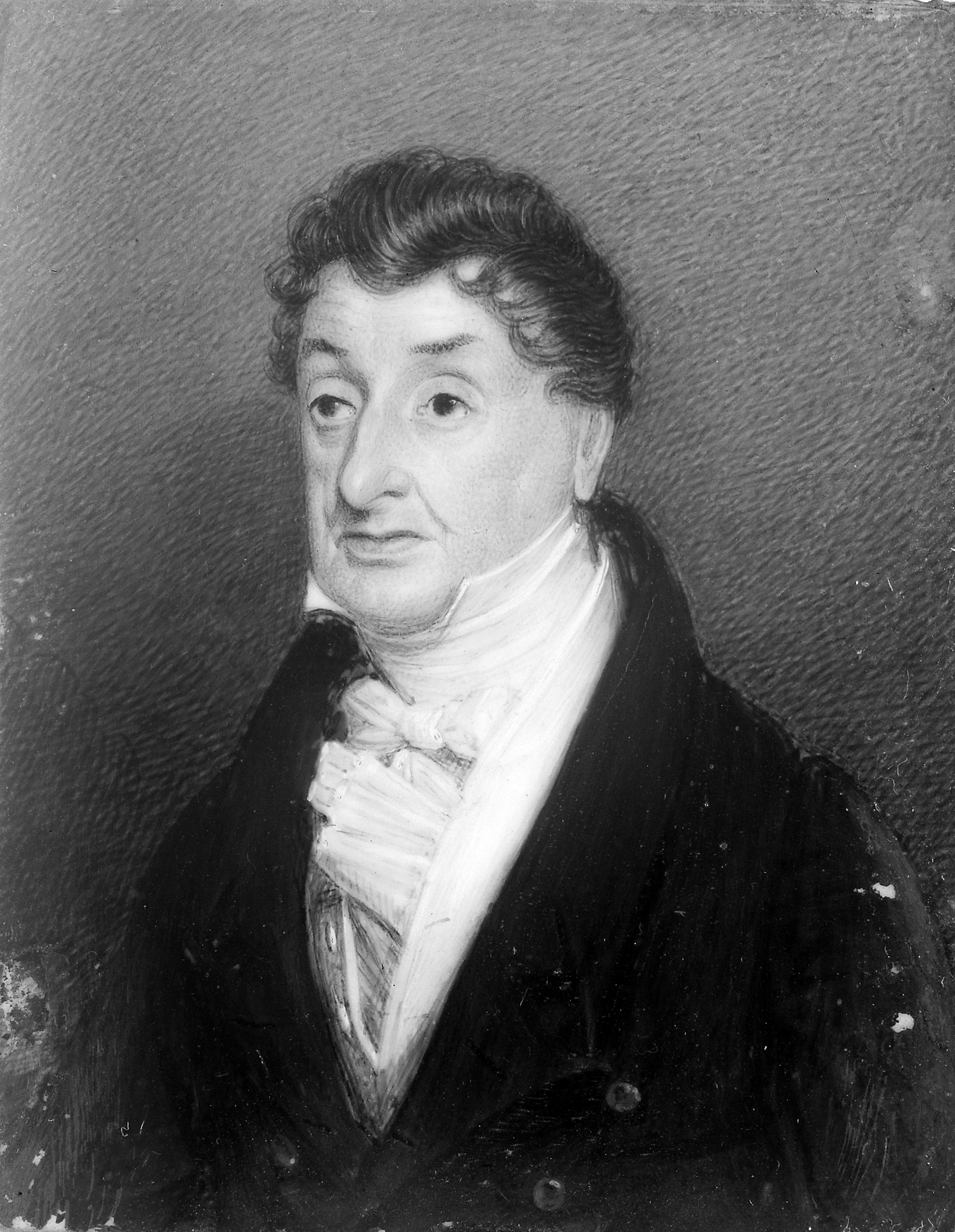 Portrait of Robert Chessher from a minature now in Hinckley Public Library. Iconographic Collections Keywords: William Bass; Robert Chessher